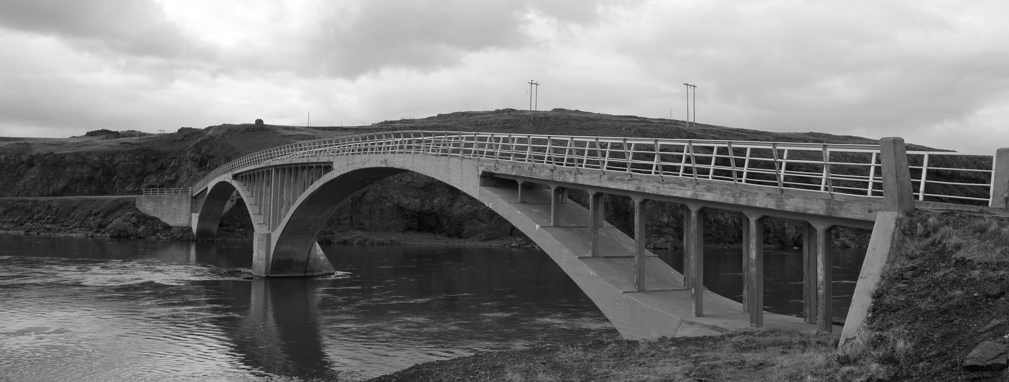 Old bridge over the river Hvítá in Borgarfjörður/Iceland, designed by Árni Pálsson